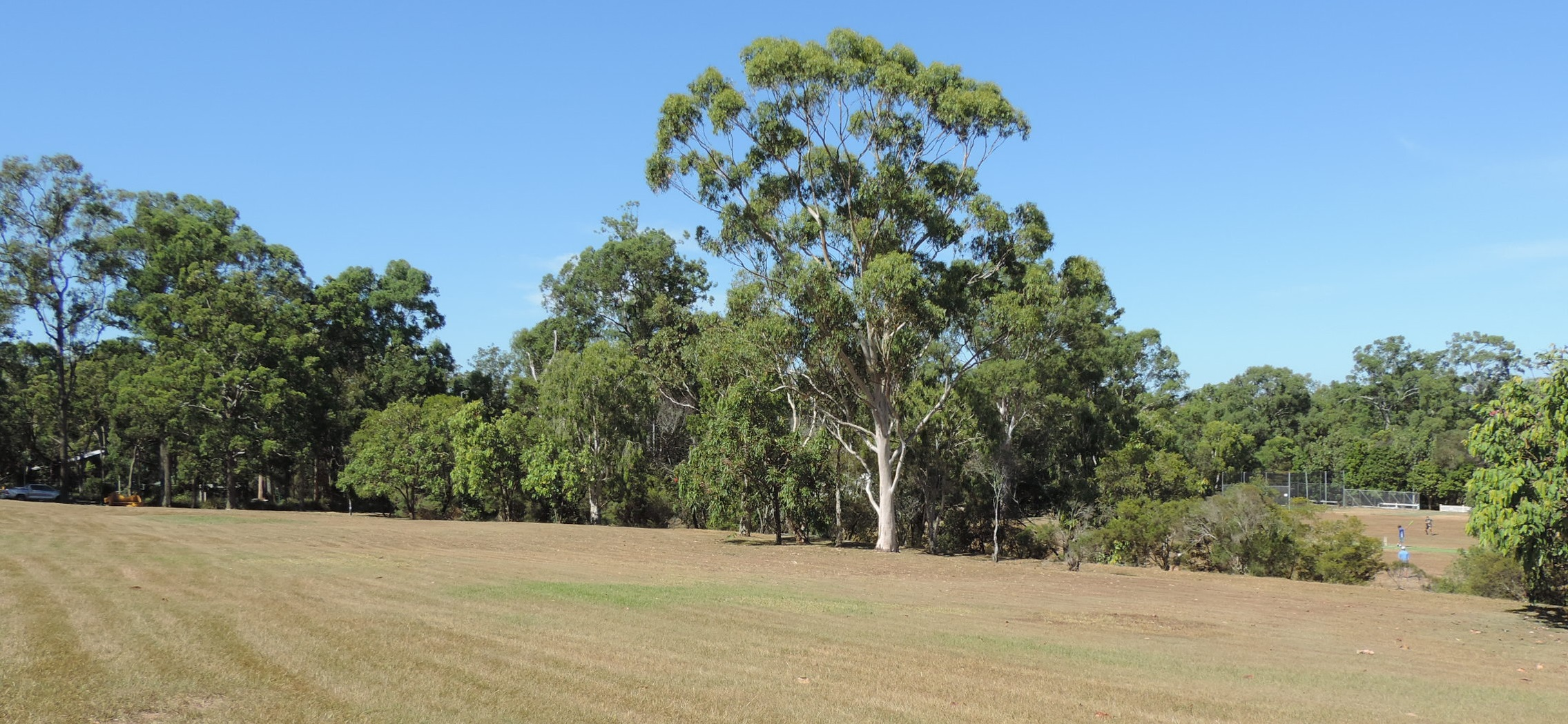 The major park within the Brisbane suburb of MacGregor, Queensland, looking towards Mount Gravatt, facing north-east.